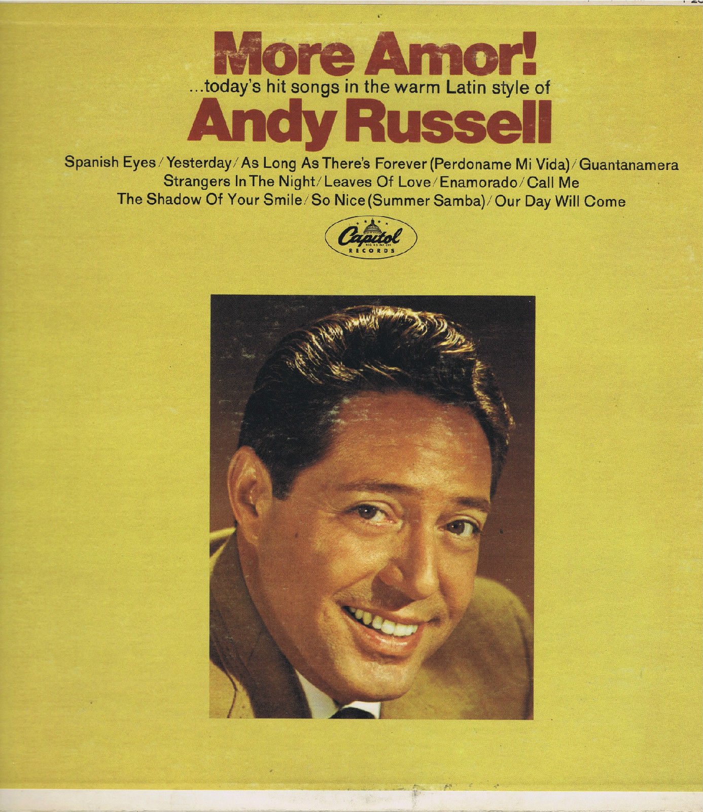 Andy Russell "More Amor!" Album (Front)